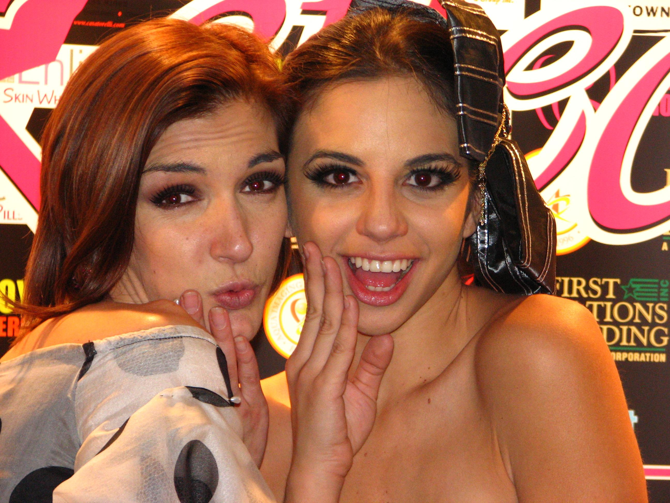 Kristin Quinn and Danella Lucioni at the Red Carpet. Dresses by David Tupaz.